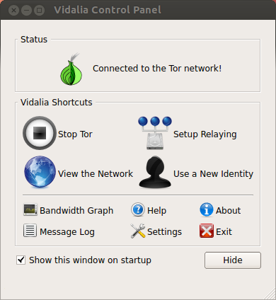 A screenshot of the Vidalia control panel in Ubuntu 12.04. Tor Browser Bundle Version 2.2.37-1 - Linux, Unix, BSD (64-Bit).